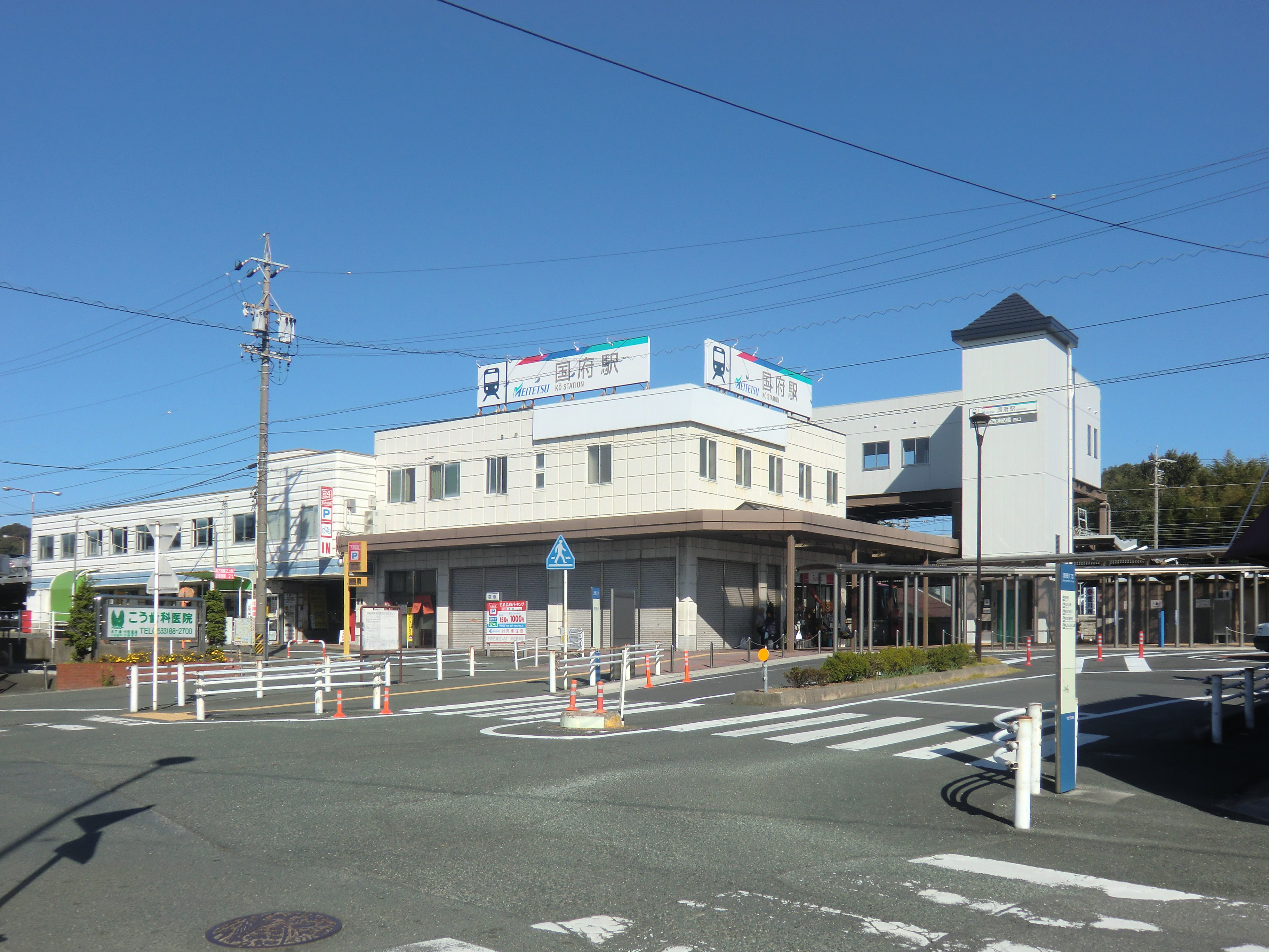 Kō Station (国府駅), located at Kubo-cho, Toyokawa, Aichi, Japan